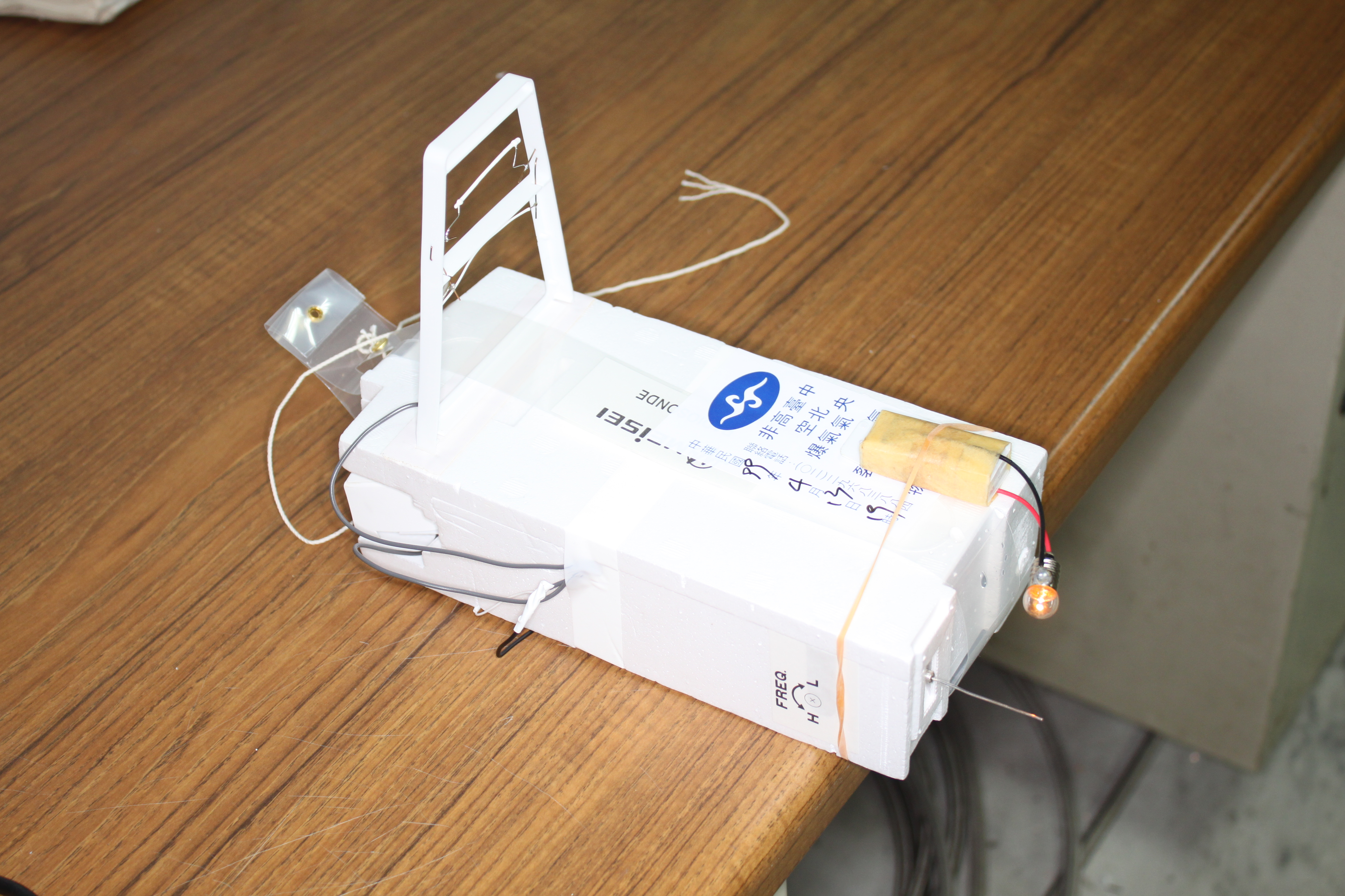 The radiosonde of Taipei weather station (46692/RCPC)(2010-04-13)